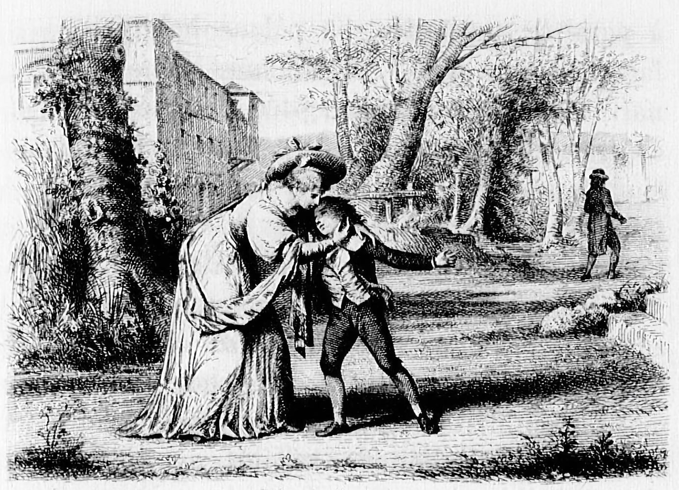 Illustration of The Red and the Black (1830) by Stendhal (1783-1842)